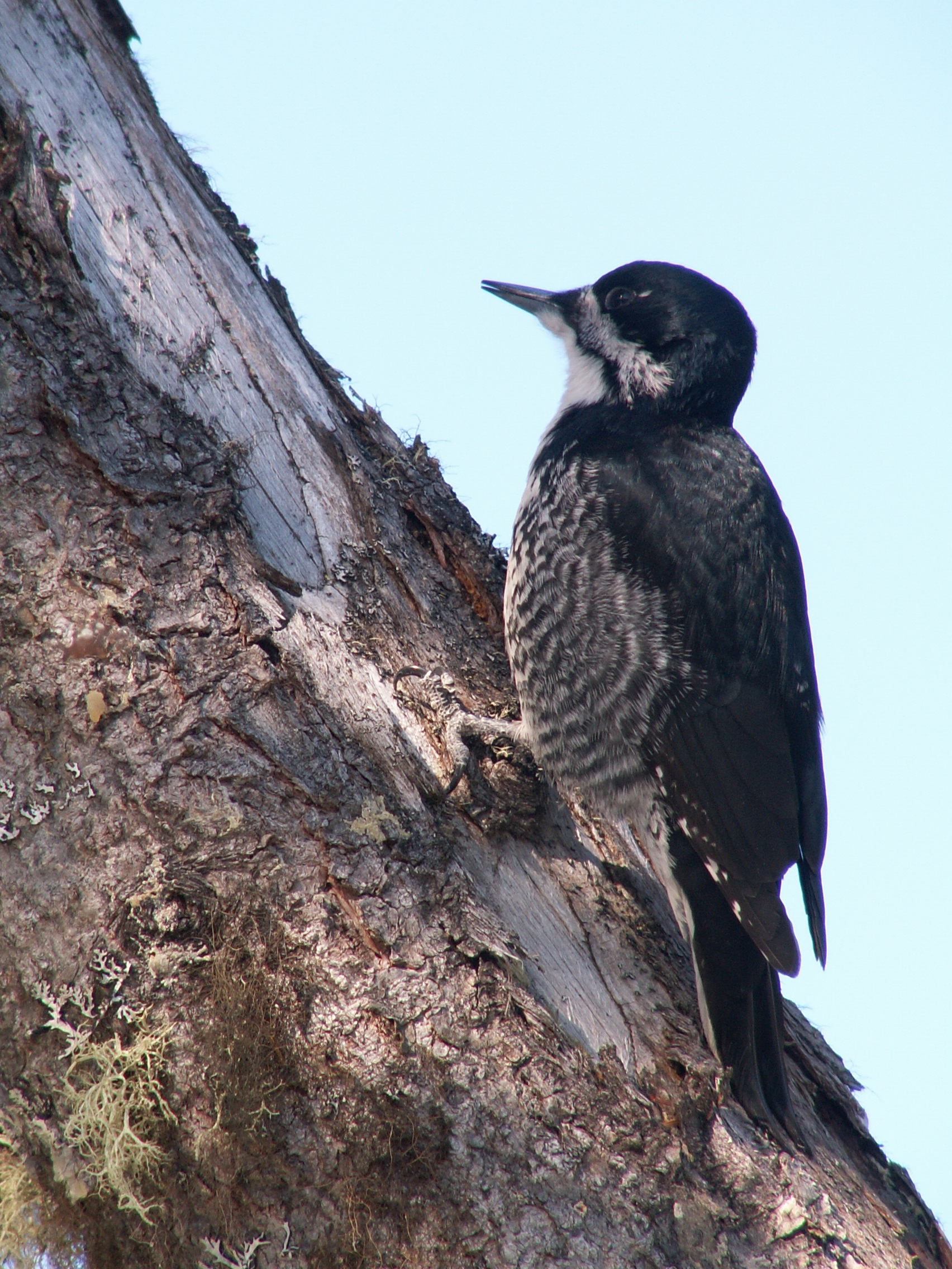 Black-backed Woodpecker (Picoides arcticus) female. Quebec, Canada